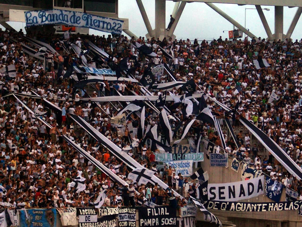 Soccer fans, The 22